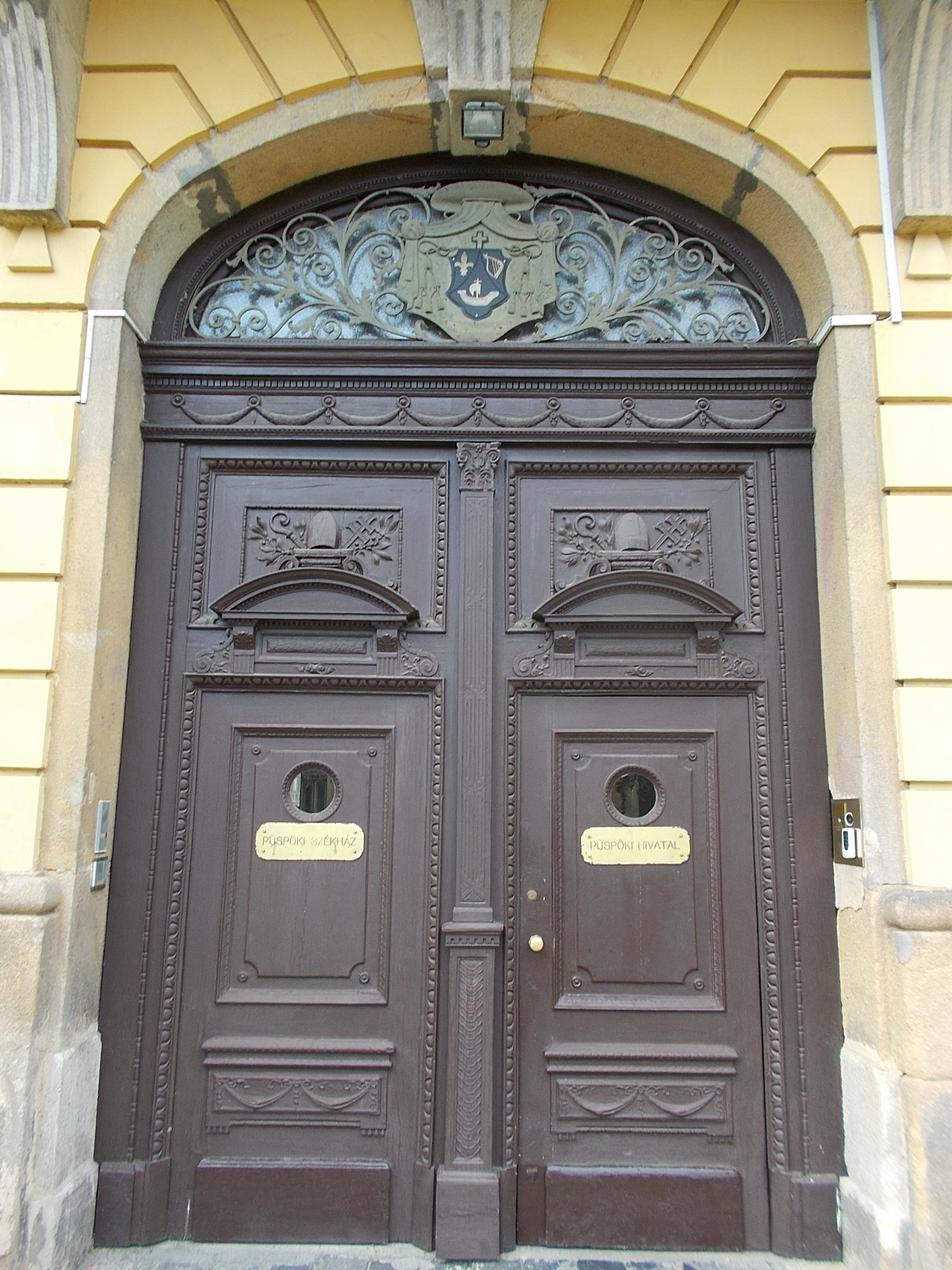 The Bishop's Palace is a historic and listed building. Built between 1768 and 1775. The garden of the palace is a preserved botanical garden of national importance. The side-wing on the side of the garden overlooks Konstantin Square, while its main entrance opens from Migazzi Square. - 1 Migazzi Square, Vác.